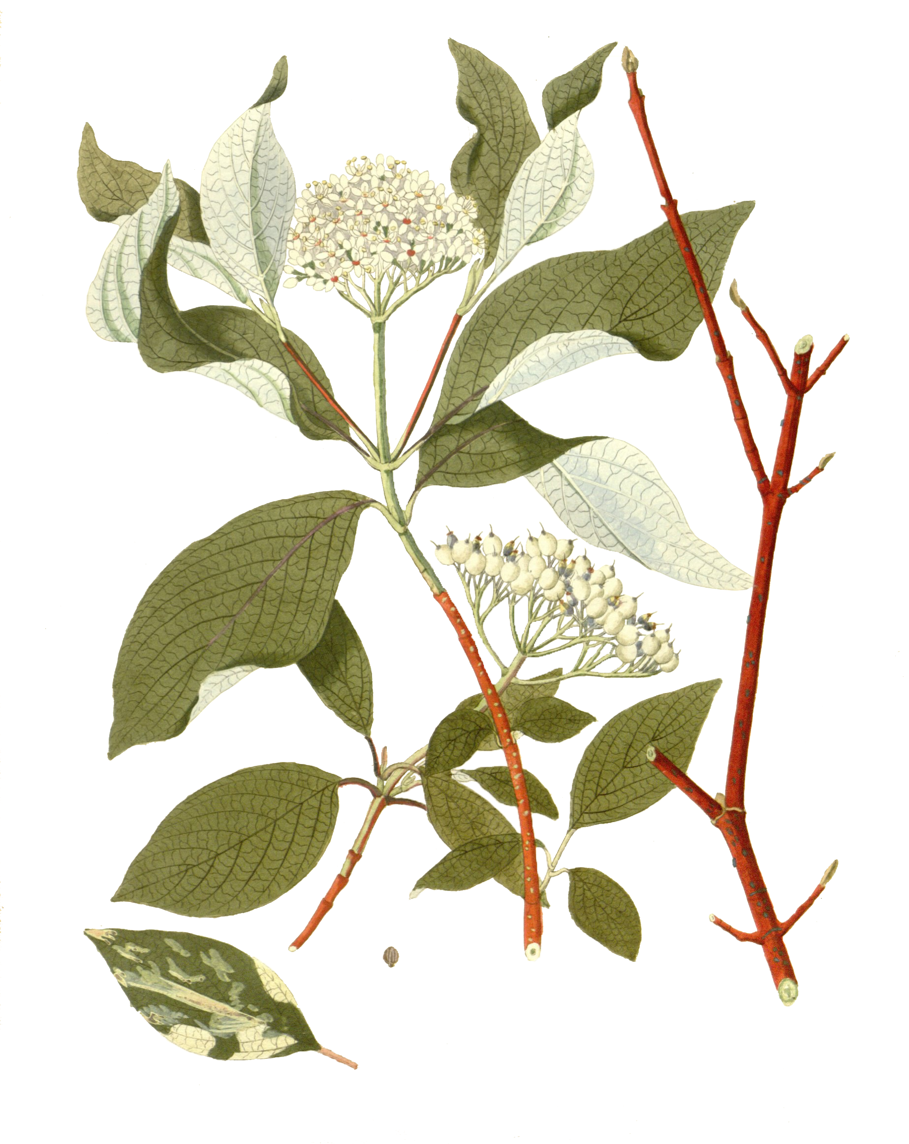 Cornus alba